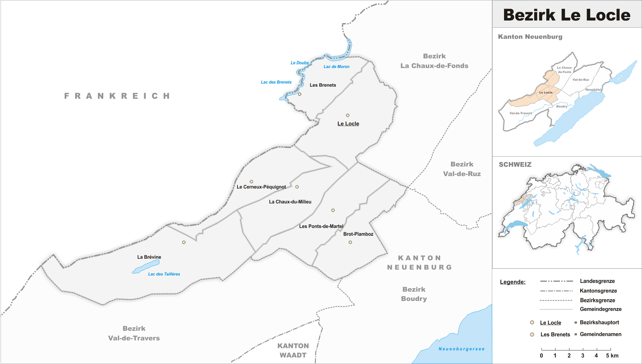 Municipalities in the district of Le Locle